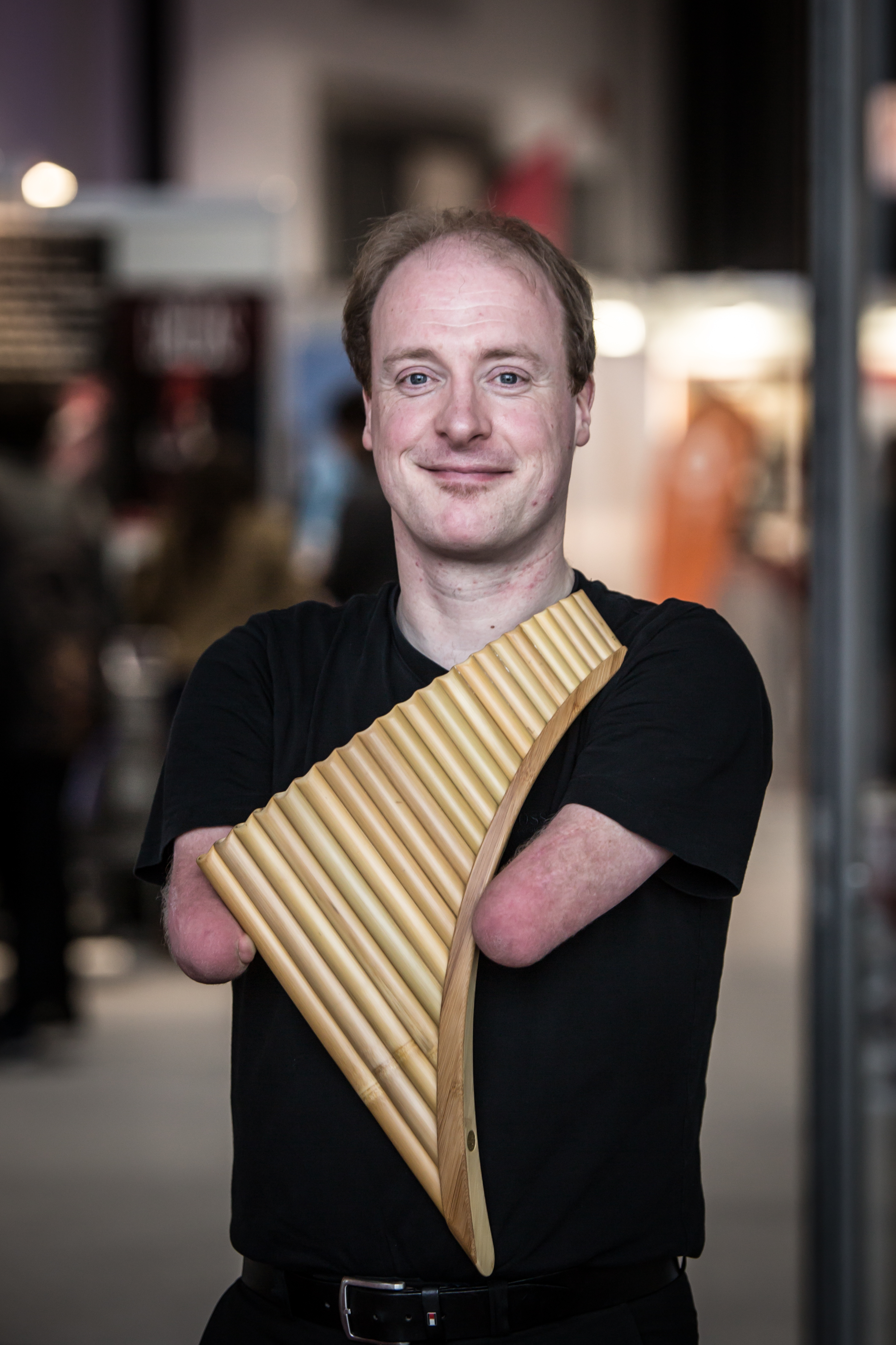 German panflutist Matthias Schlubeck at the Internationale Kulturbörse Freiburg 2018